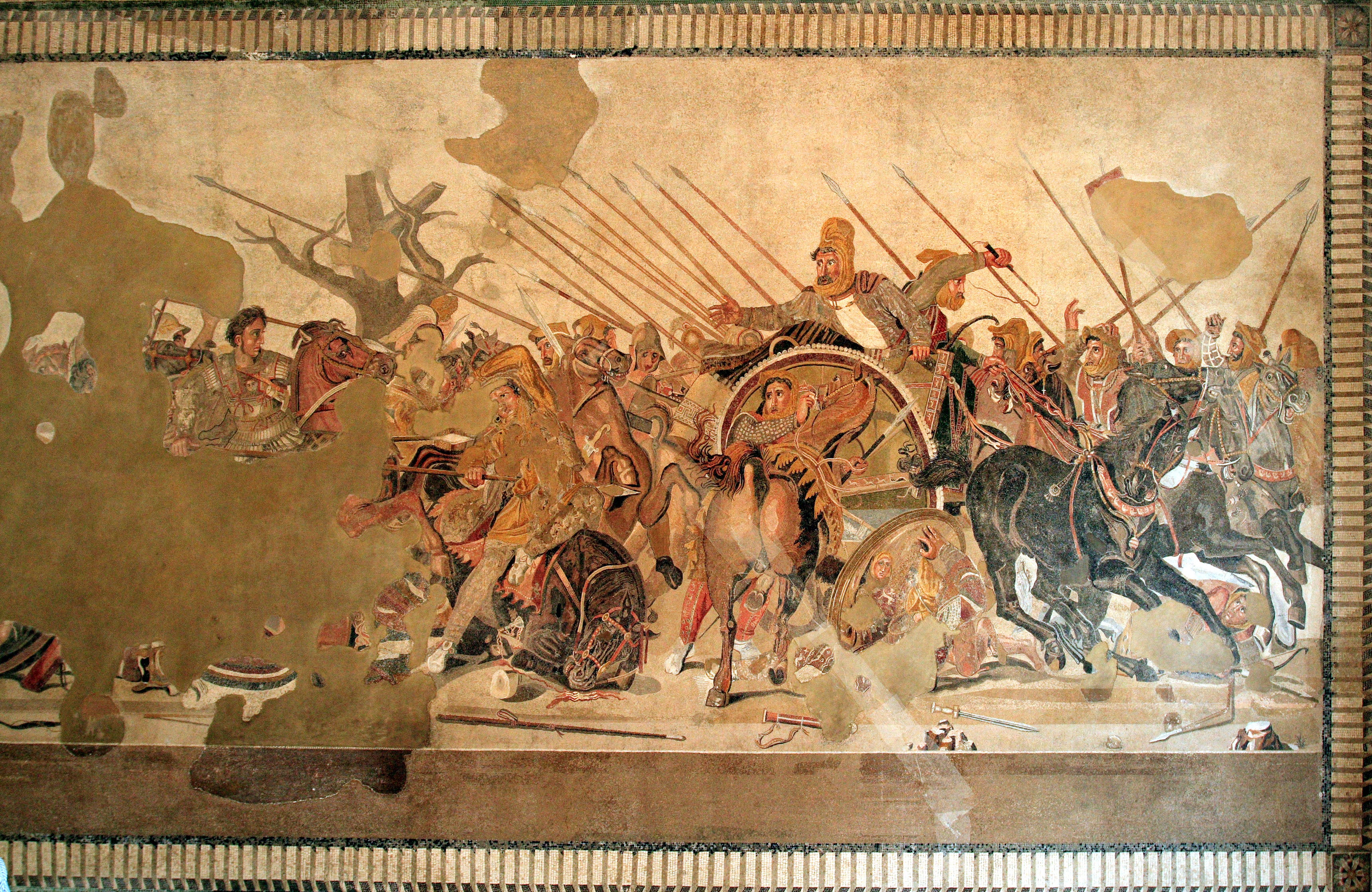 alexander mosaic photographed in Museo Archaeologico Naples